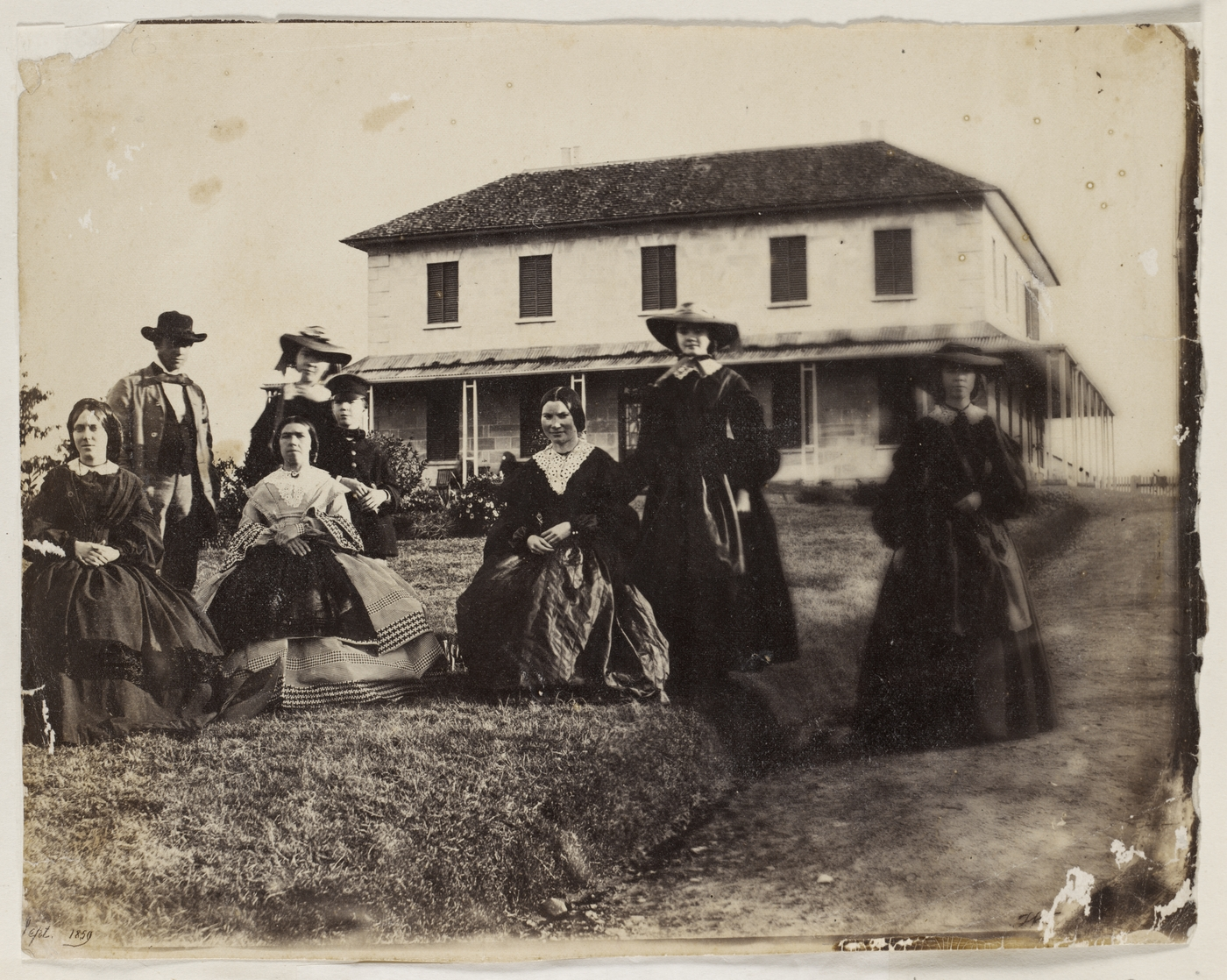 Format: Photograph Find more detailed information about this photographic collection: .au/item/itemDetailPaged.aspx?itemID=844009 From the collection of the State Library of New South Wales